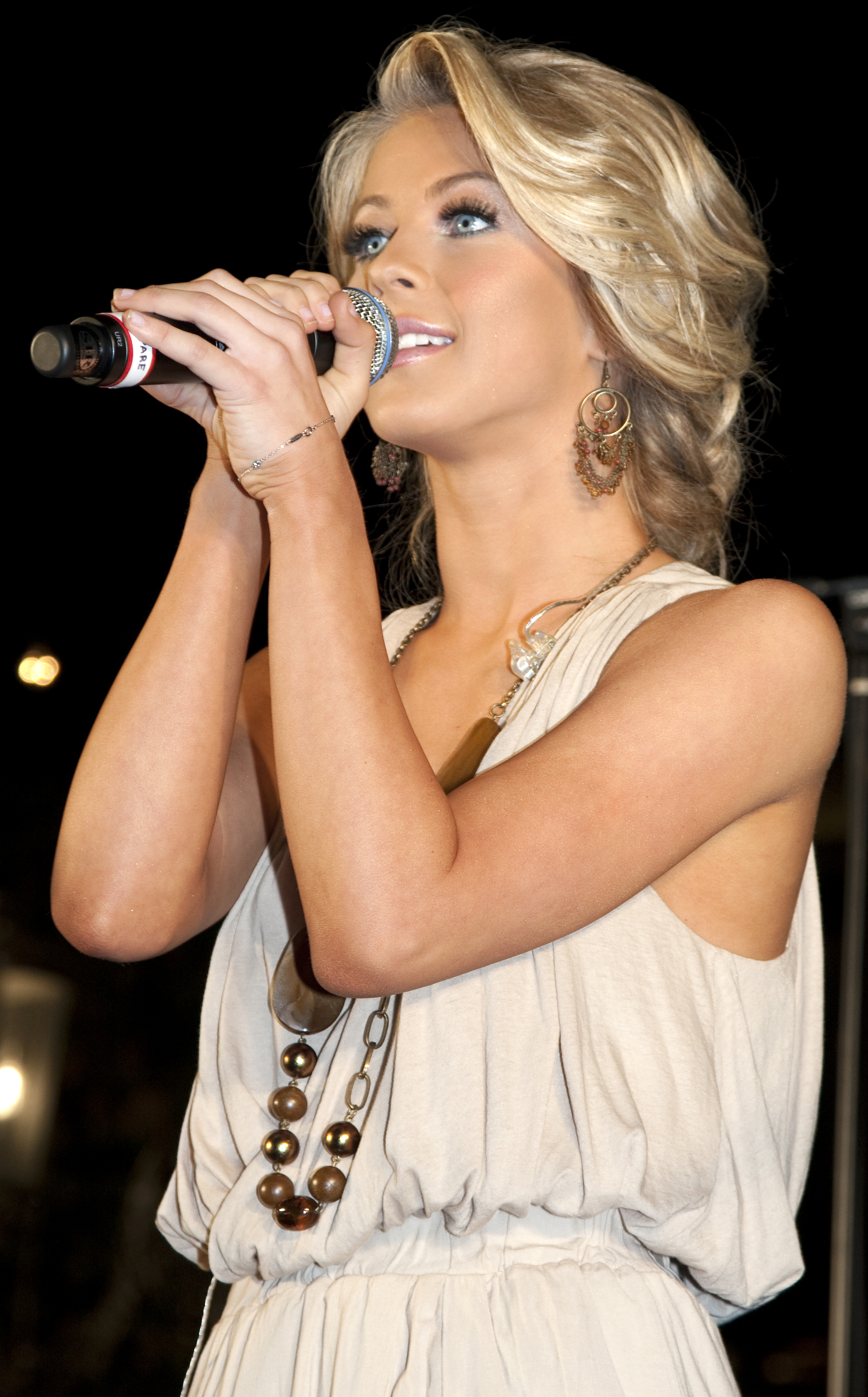 Julianne Hough performing in Los Angeles in March 2009, in the show "Dancing with the Stars" at The Grove.